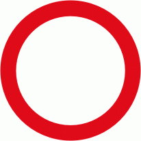 Diagram of road signs of Luxembourg